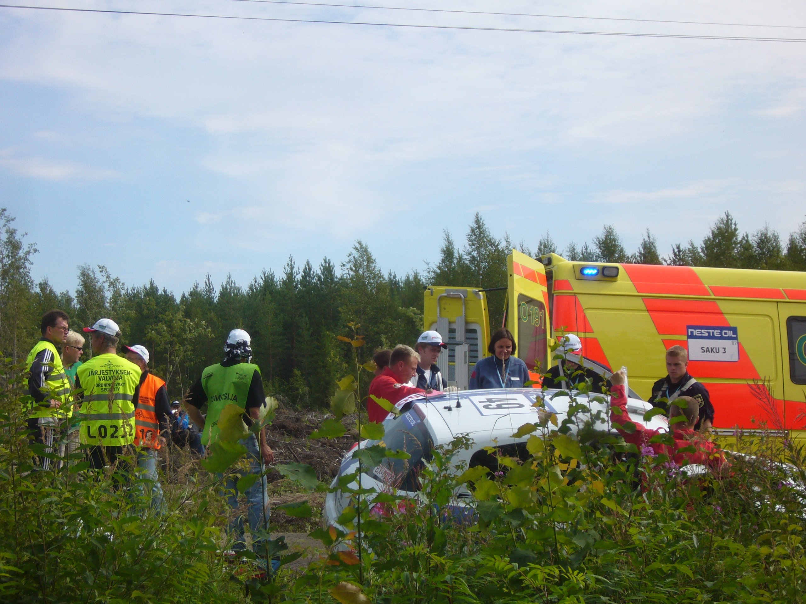 Serbian JRC-rallydriver Milos Komljenovic's Renault Clio 2.0 16V in Palsankylä special stage, Neste Oil Rally Finland 2007.